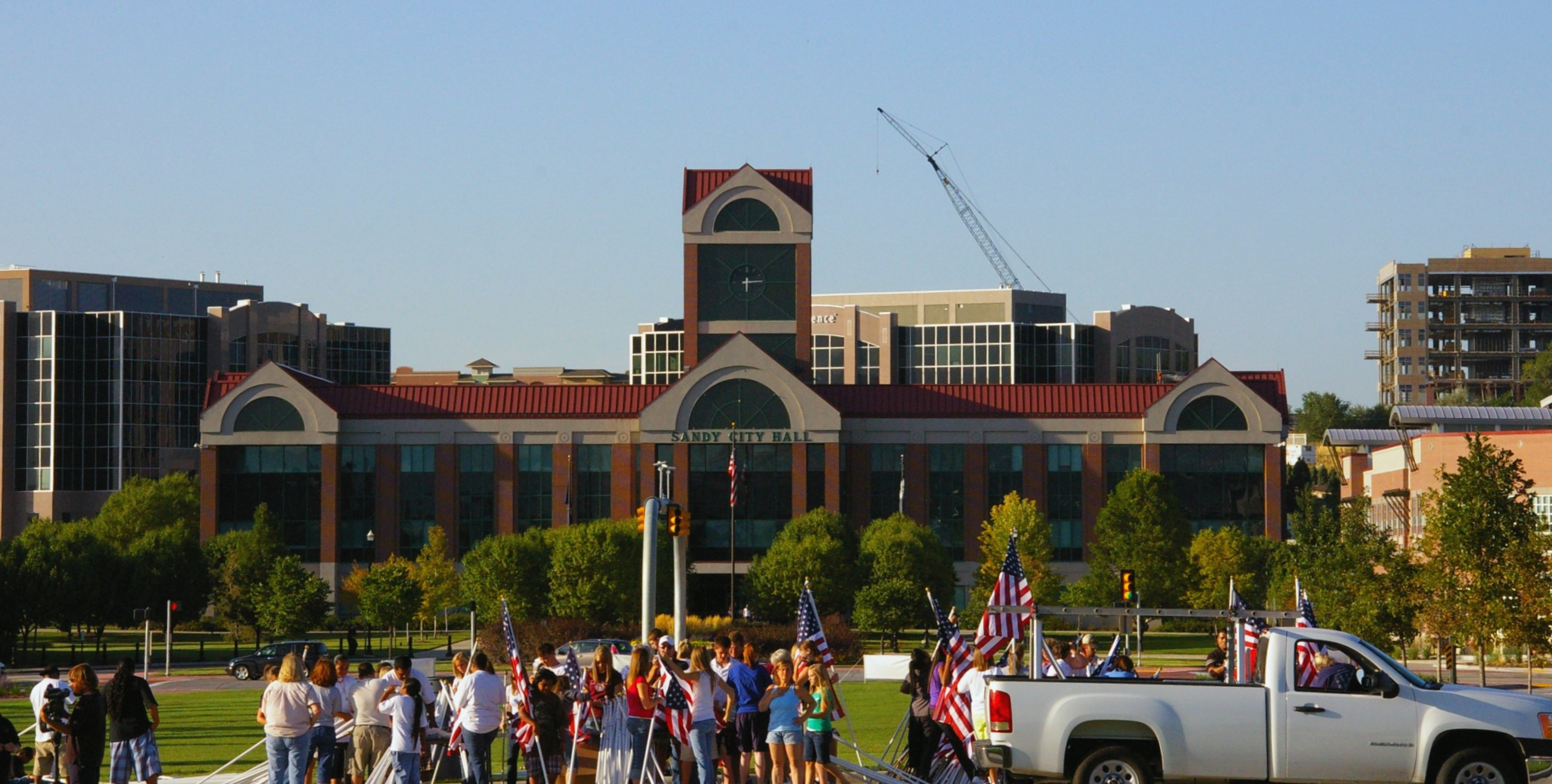 Volunteers set up the Healing Field in front of the city hall in Sandy, Utah on Sept. 10, 2009.